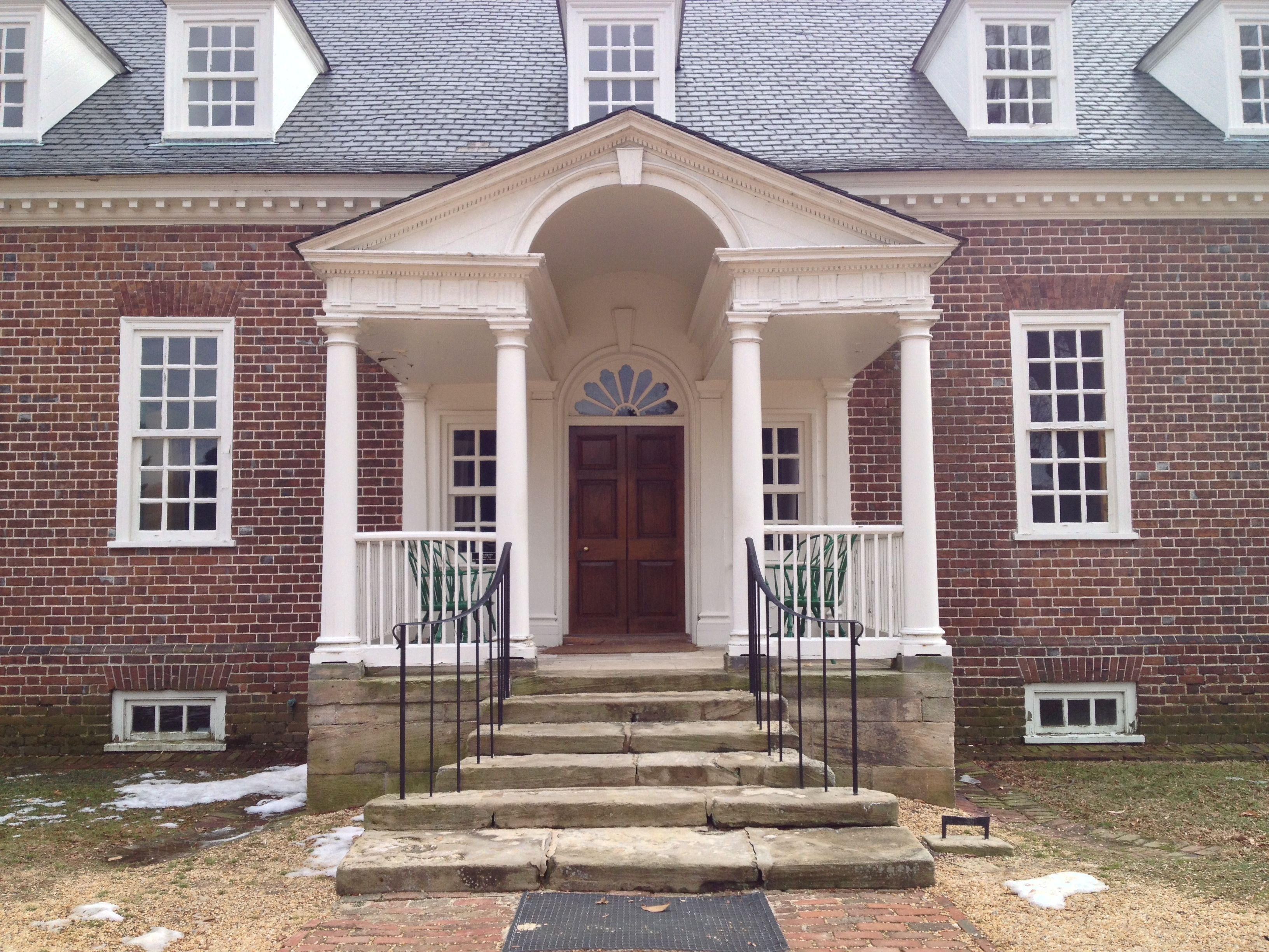 Gunston Hall, photographed on February 2, 2014.